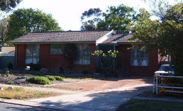 Category:Images of Canberra Govie, Australia Government-built house (style).